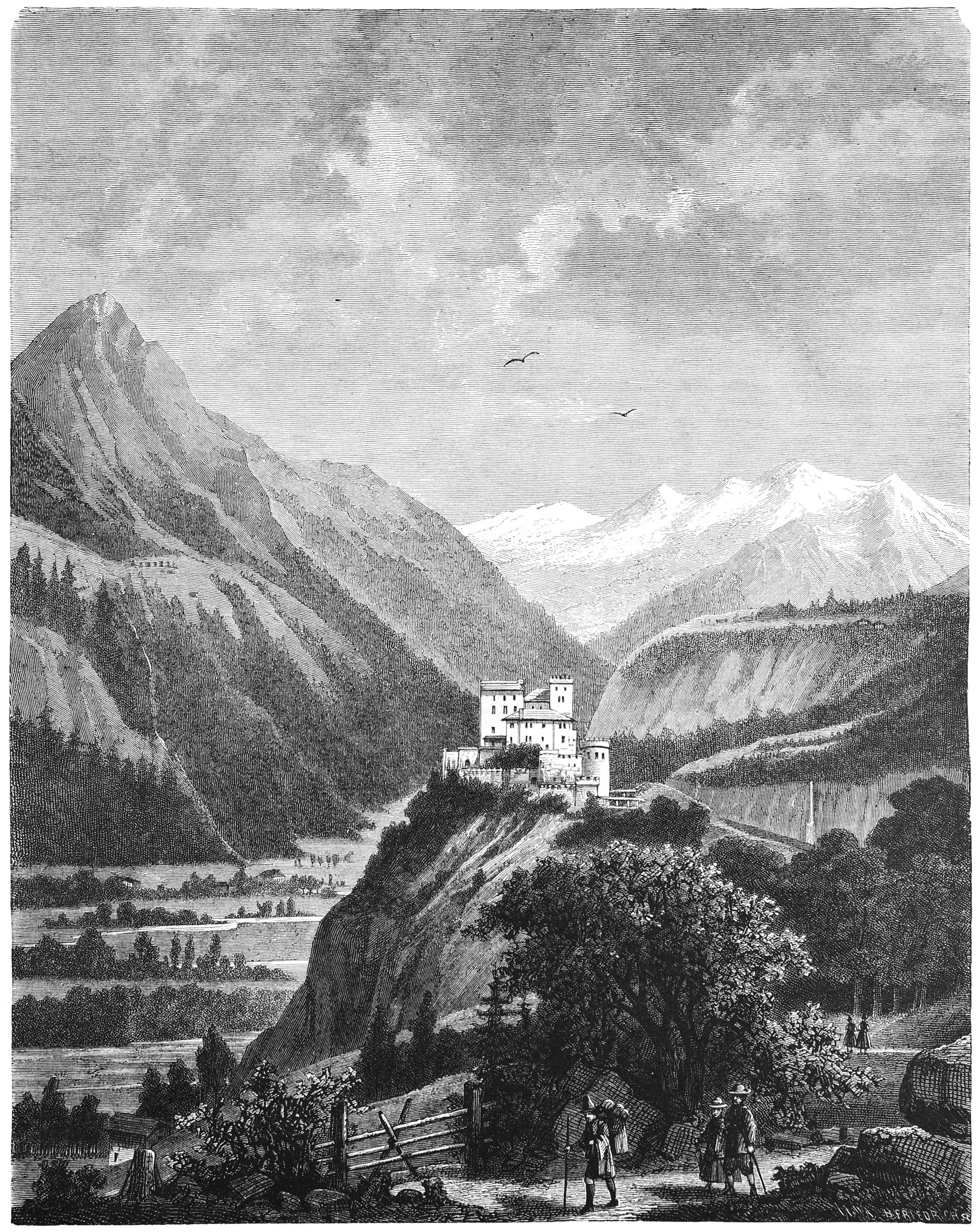 caption: "Schloß Weißenstein.Nach der Natur aufgenommen von E. Rabending."